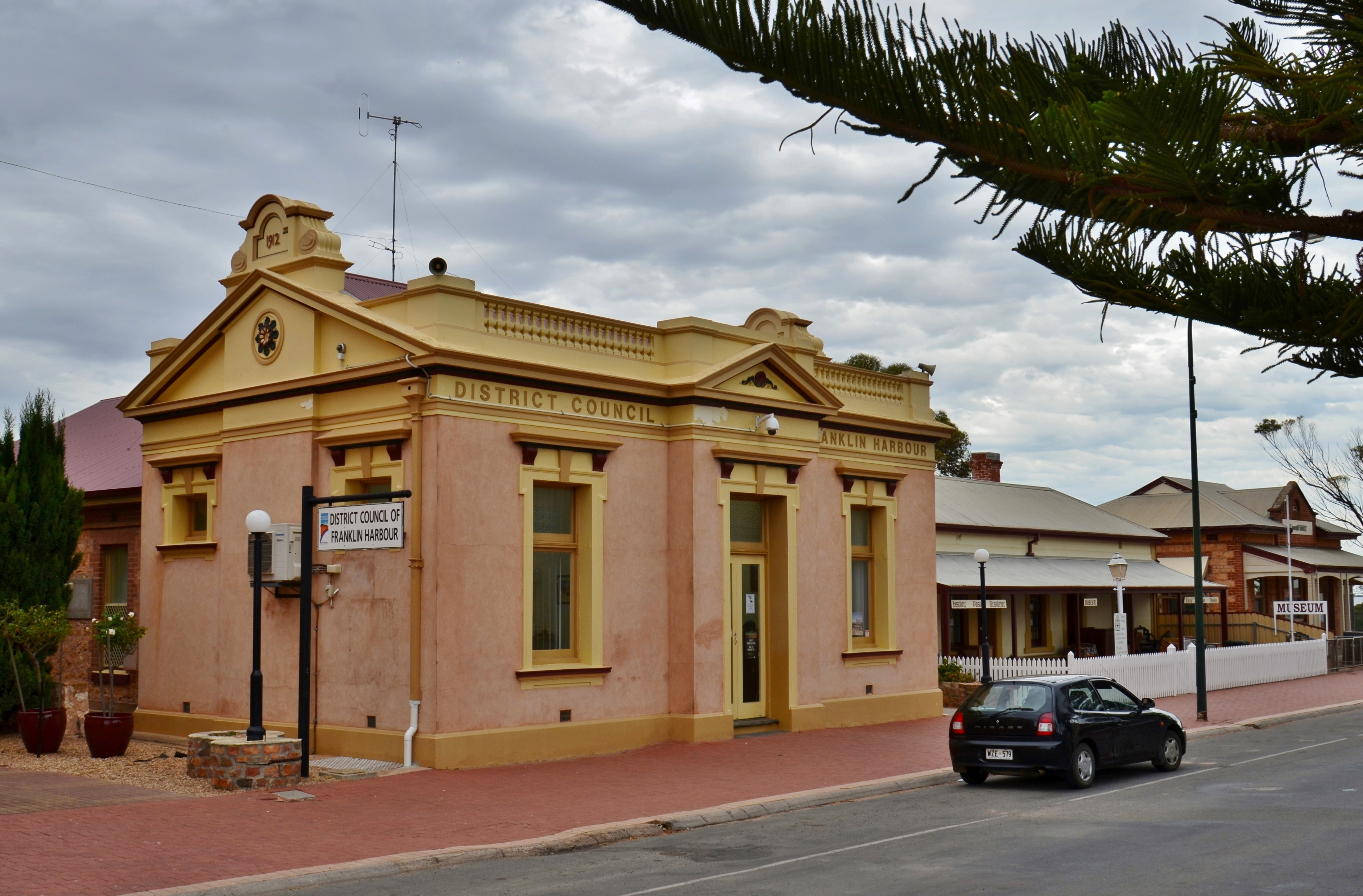 View of the office of the District Council of Franklin Harbour, Cowell, South Australia